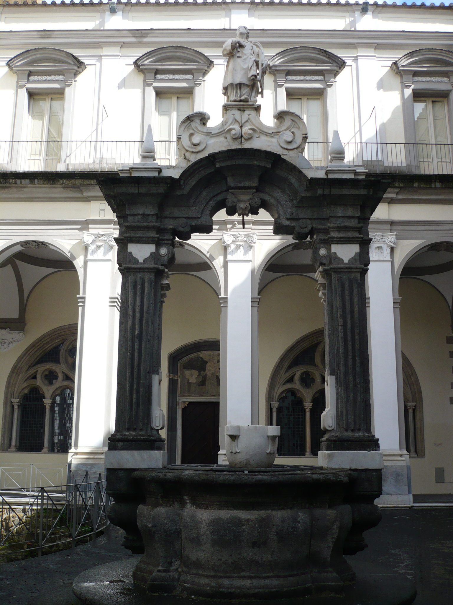 Courtyard of the monastery of San Lorenzo in Naples